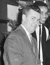 Seattle mayor Gordon Clinton, 1961. Photo was taken at a Christmas party; the person in the background is a member of a singing group. Extracted from Item 69816, Engineering Department Photographic Negatives (Record Series 2613-07), Seattle Municipal Archives.